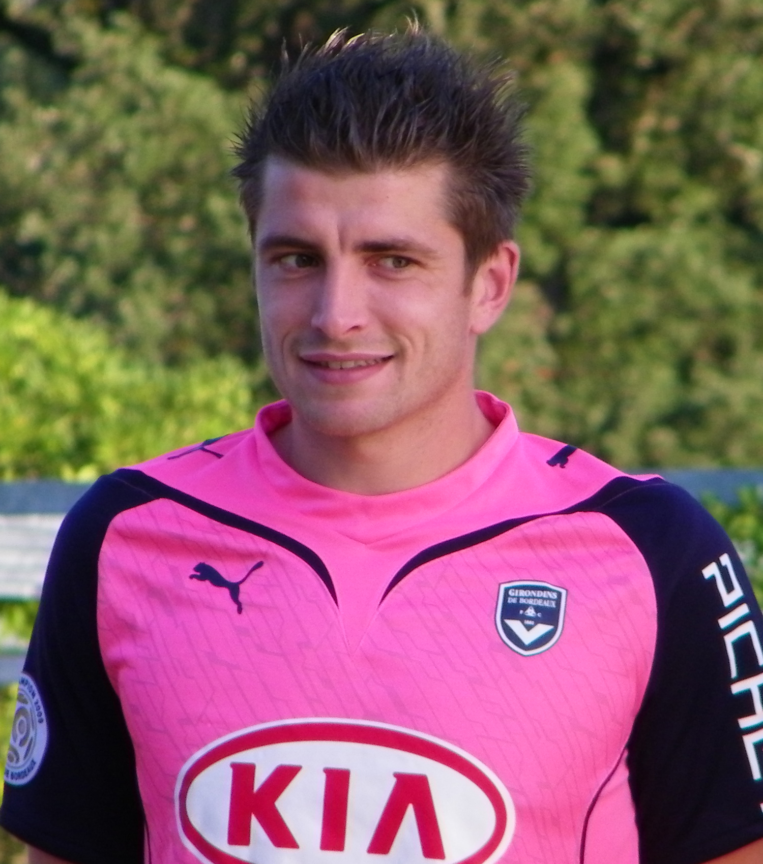 Cedric Carrasso